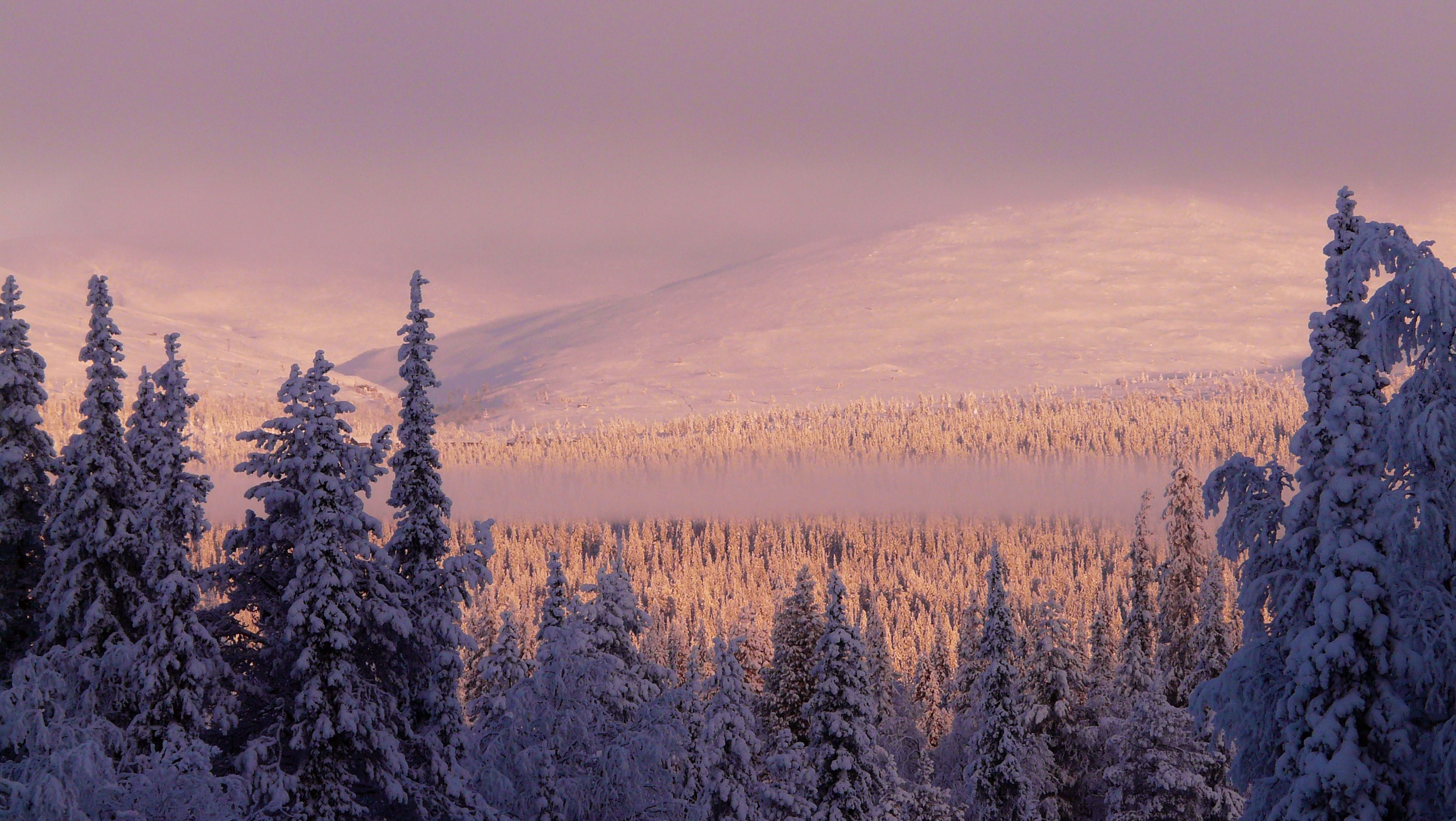 A view to Pallastunturi as seen from the intersection of Pallaksentie (national road 957) and Jerisjärventie (connecting road 9572) in 2009 February morning.